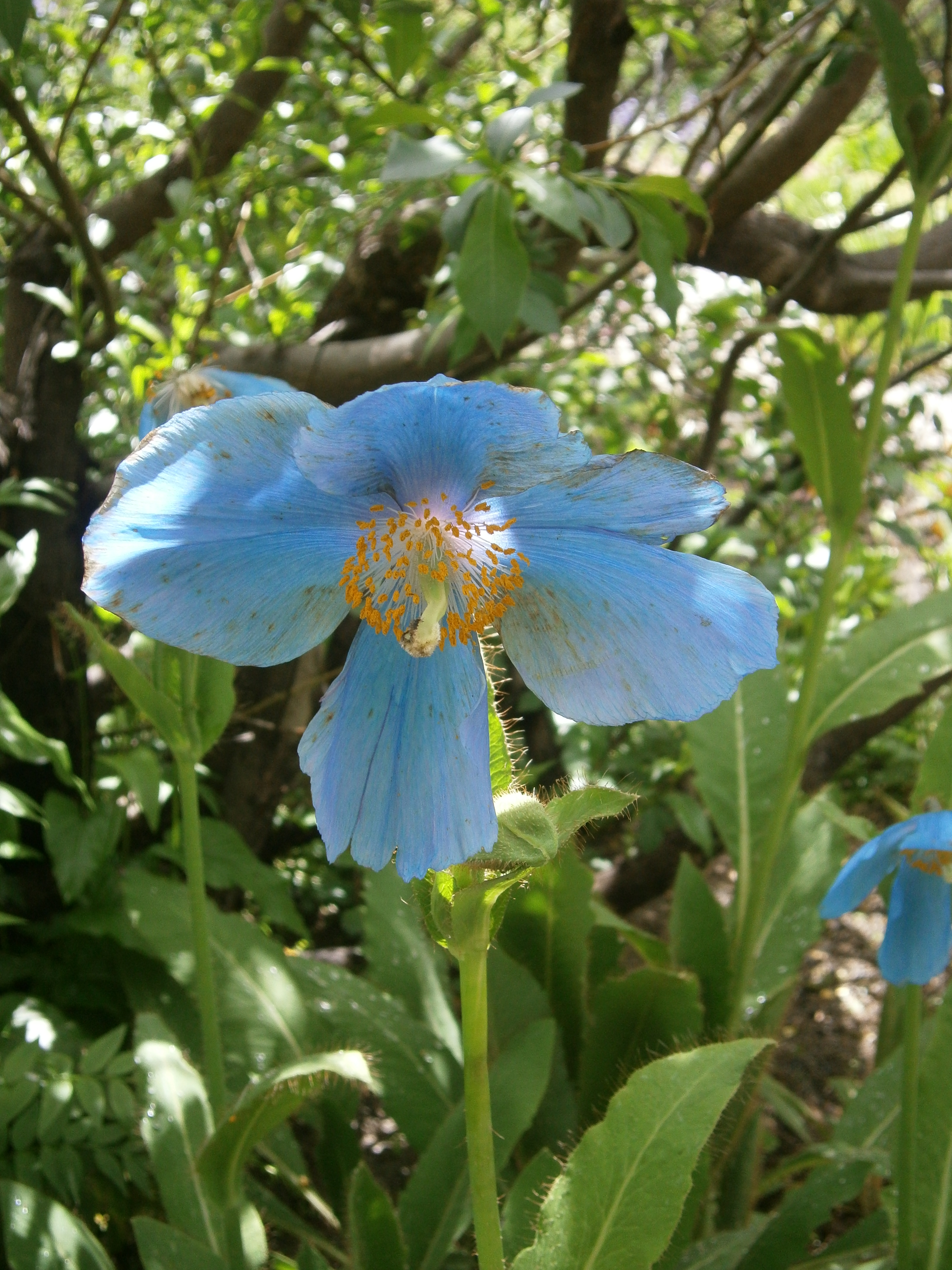 Meconopsis grandis in the Jardin Botanique Alpin du Lautaret